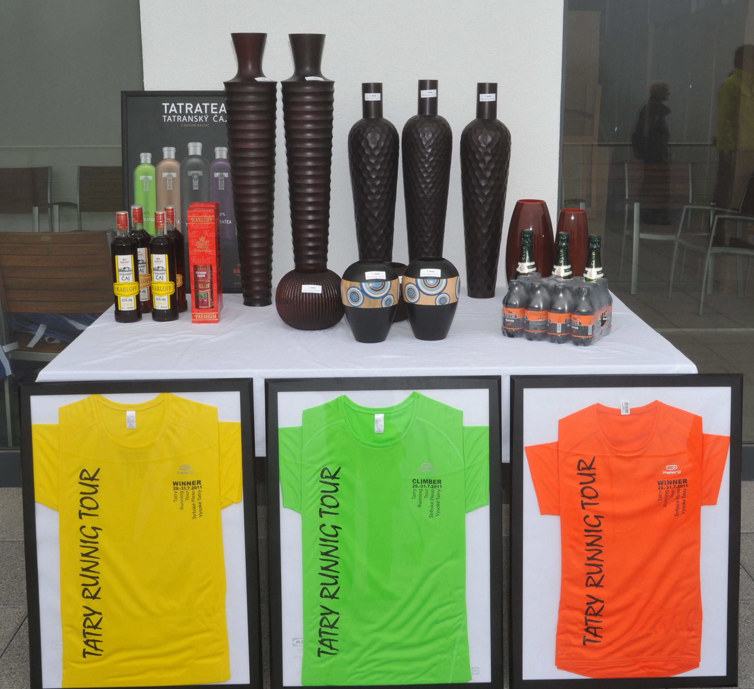 T-short